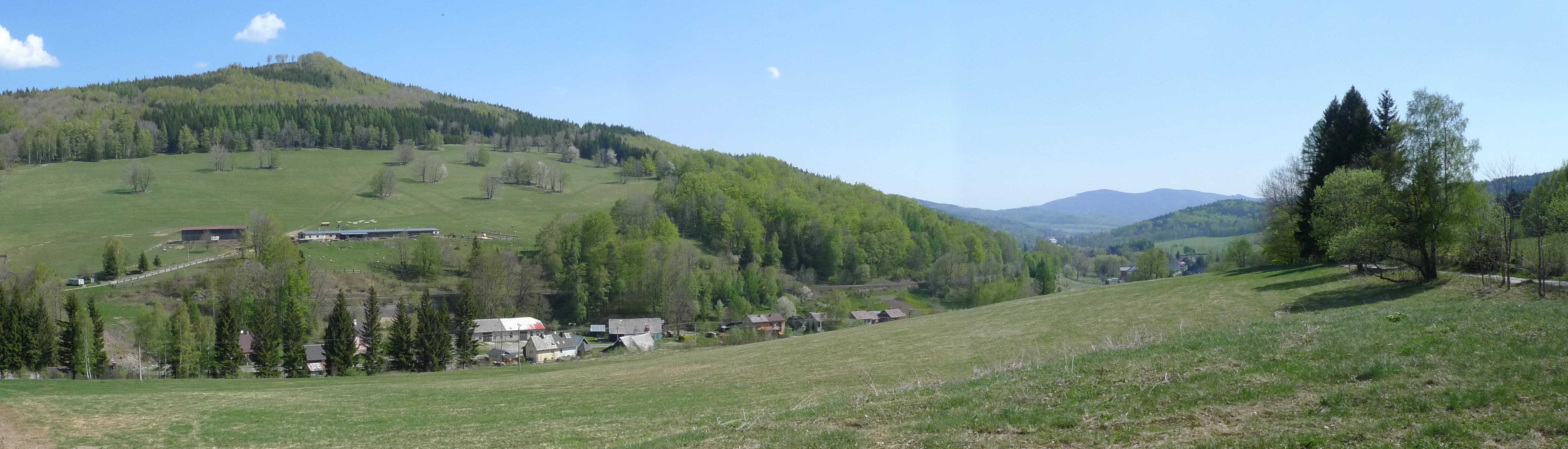 Village Horní Lipová in Lipová-lázně, CZ.